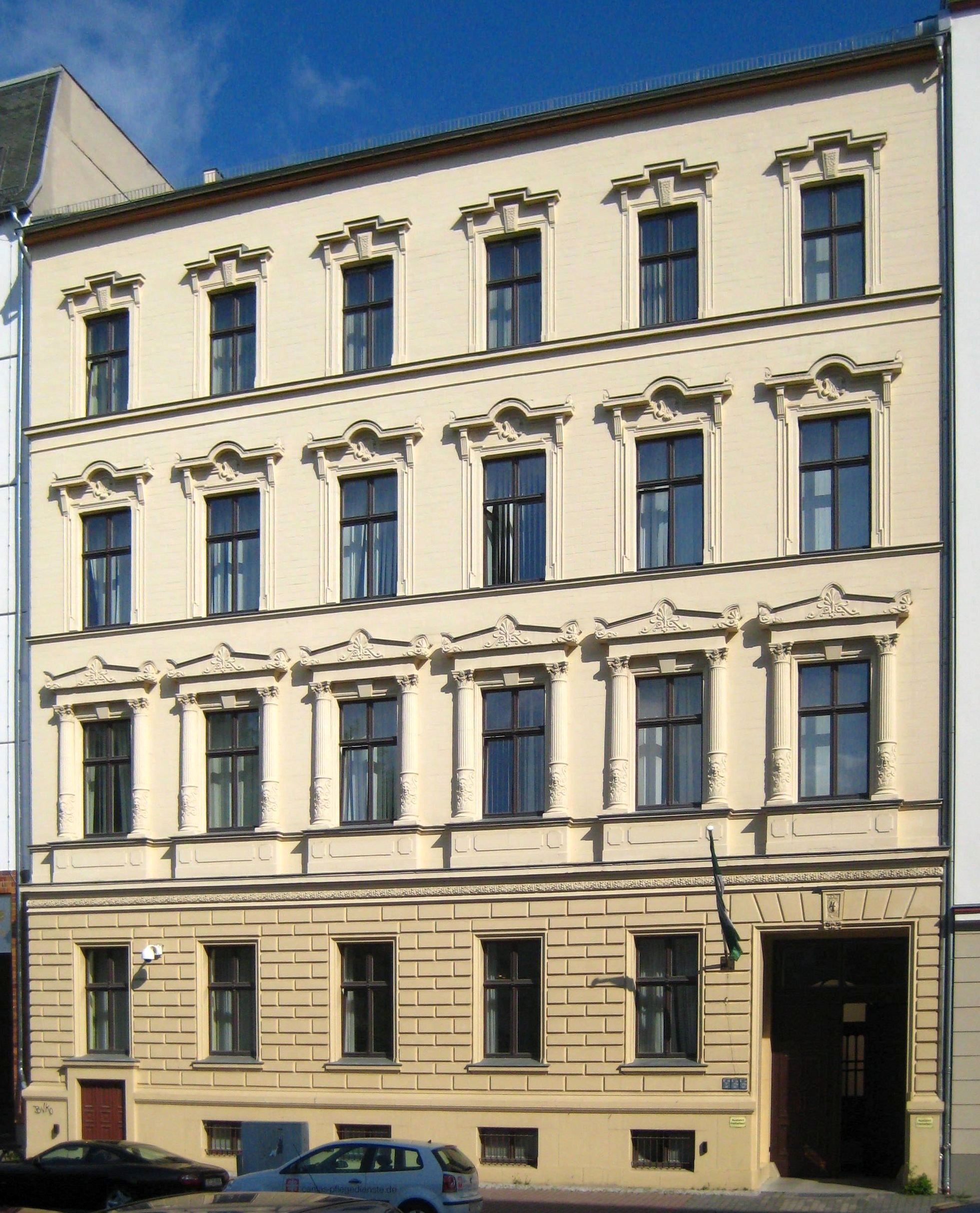 The Embassy of Nigeria at Neue Jakobstraße No. 4 in Berlin-Mitte, constructed 1874 as apartment building for the merchants Karl Hermann Moser and Ludwig Mosser. The house has a late classicist facade. Many original details have been preserved, e.g. the house number on the keystone of the portal and a decorative wooden door. The building has been designated a historic landmark.